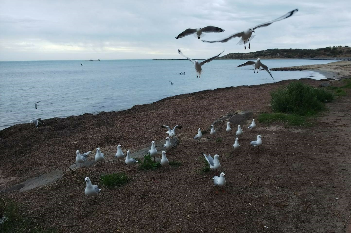 Birds flying at the seashore in Victor Harbor, South Australia Taken on the 17th of March, 2018